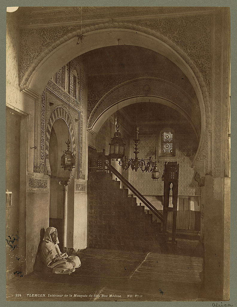 Man seated in front of mihrab in the Mosque of Sidi Boumediene (Abū Madyan), Tlemcen, Algeria. French caption: Tlemcen. Intérieur de la Mosquée de Sidi Bou Médine / ND Phot.